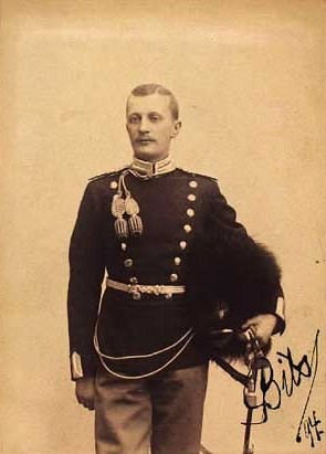 Johan Herman Hegermann-Lindencrone (1872-1929), Danish army officer